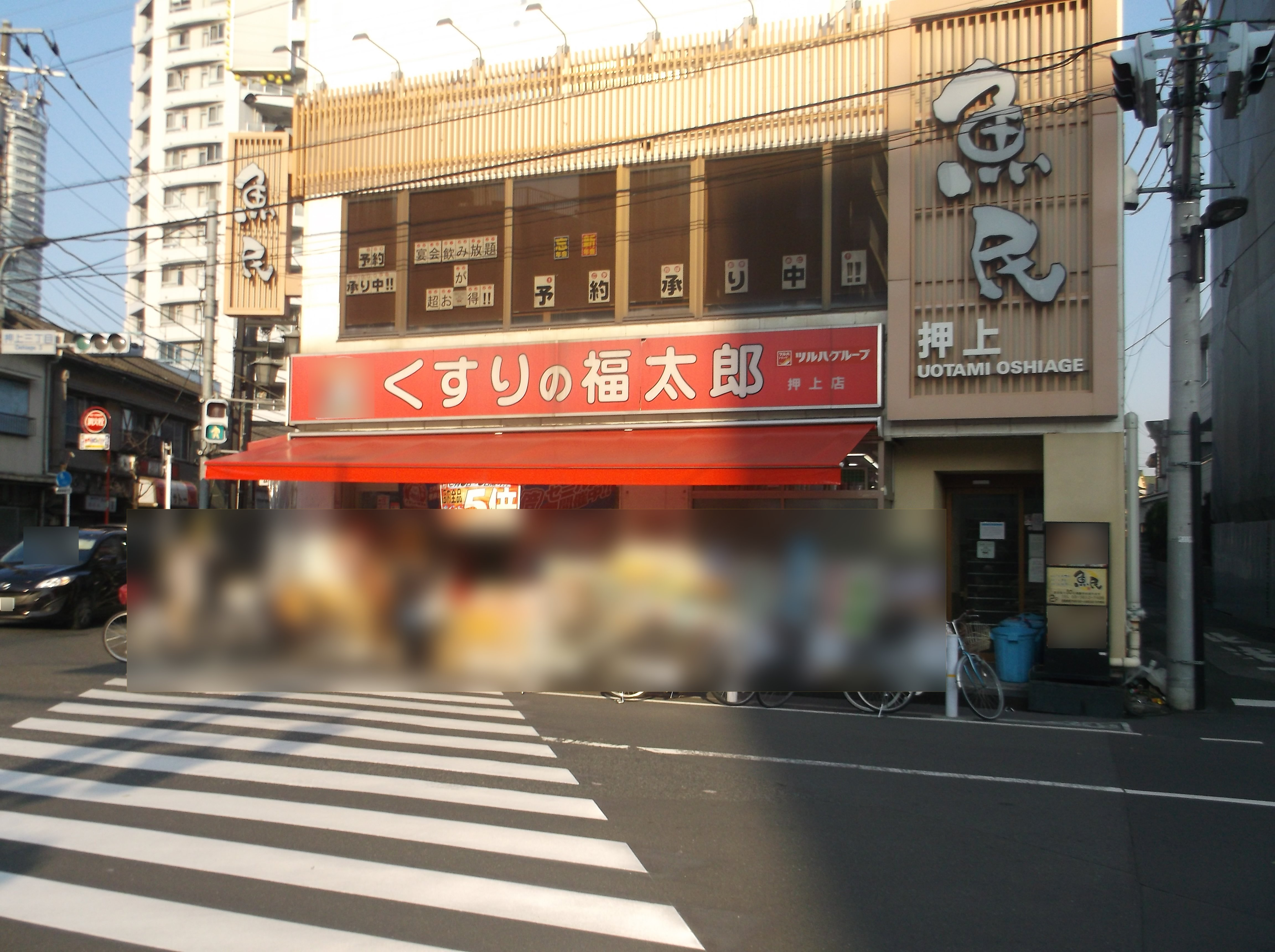 A photo of "Kusuri no Fukutaro"(A pharmacy in Tokyo.)Oshiage branch shop,Oshiage,Sumida-ku,Tokyo,Japan.